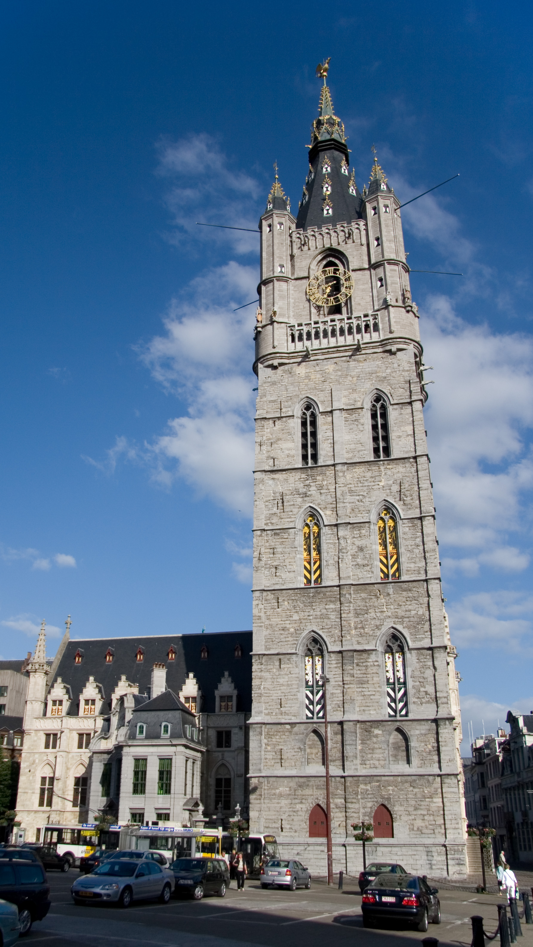 Belfry of Ghent